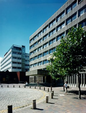 University of portsmouth